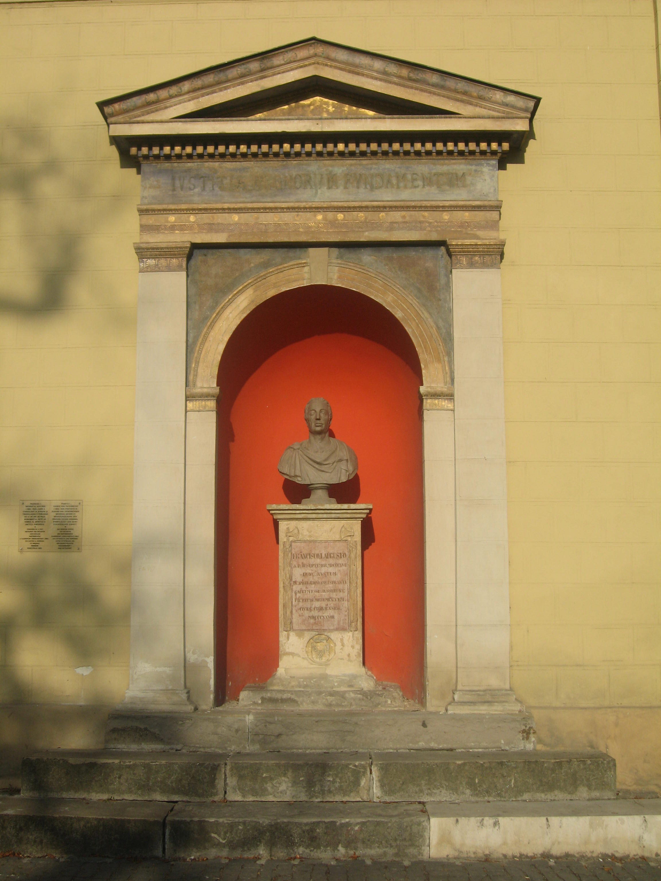 Emperor Francisc's statue in Sibiu